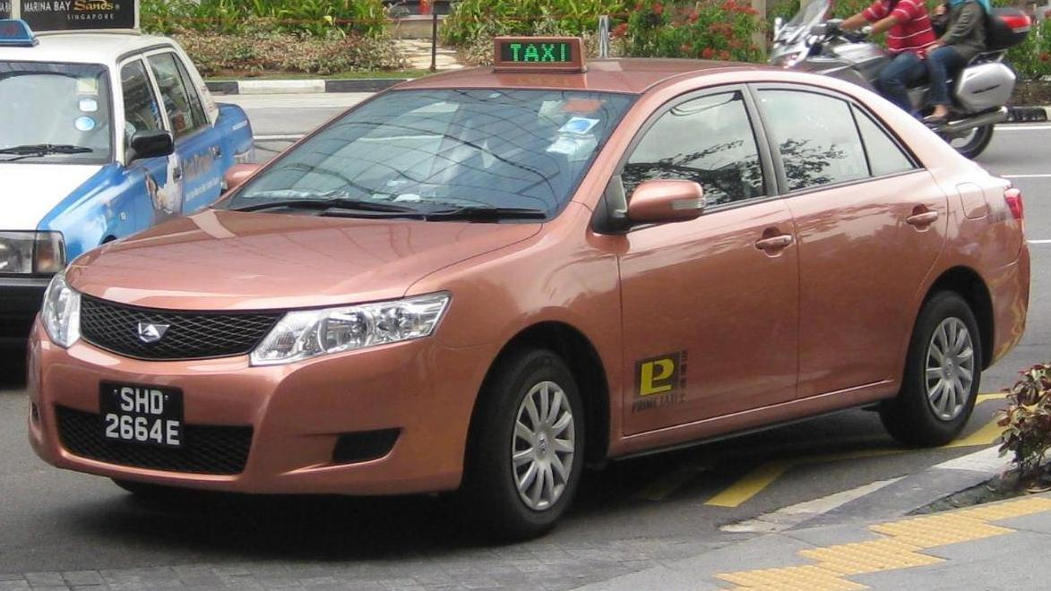 Toyota Allion 1.5 (NZT260) "Prime" Taxi, photographed in Singapore.